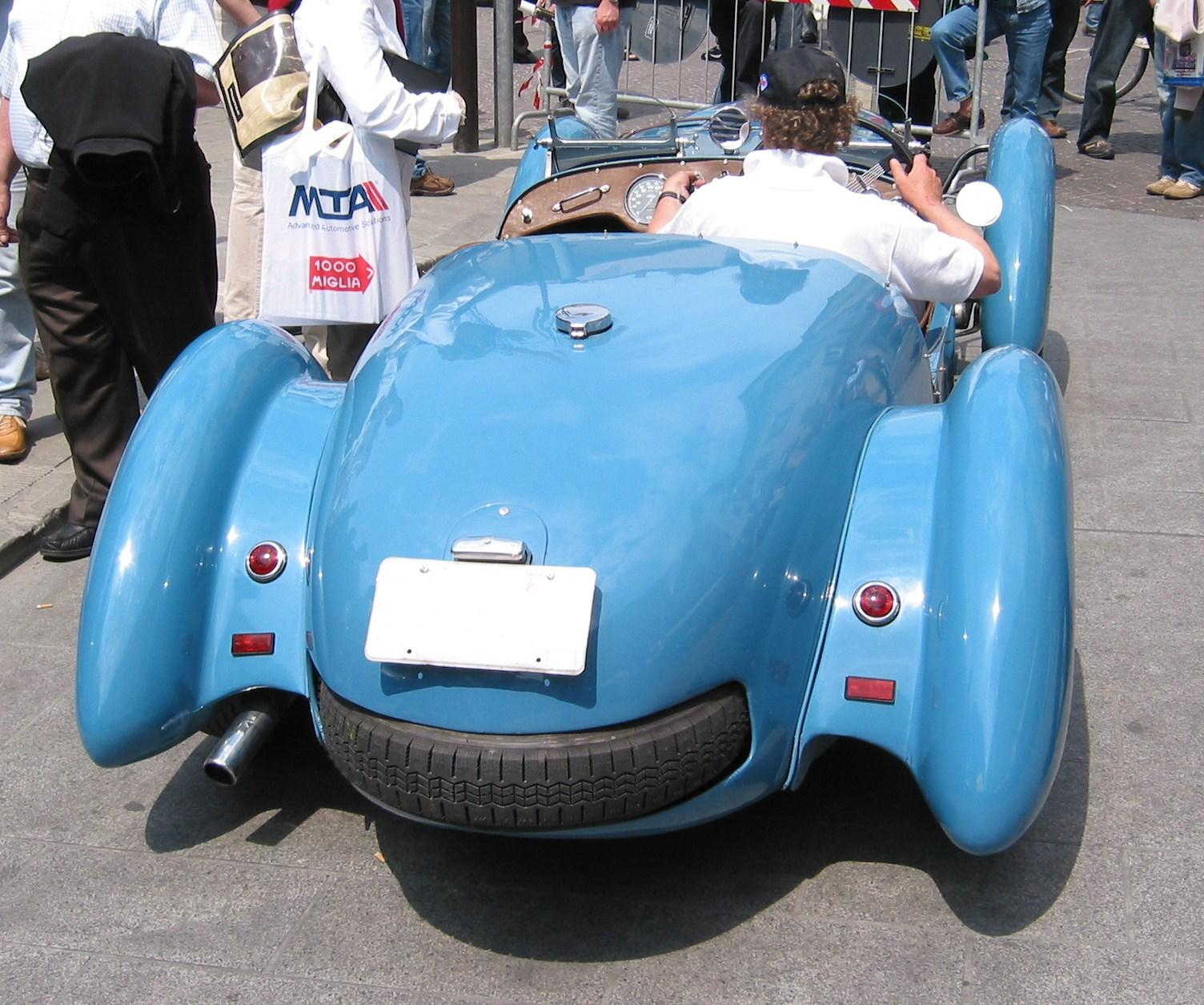 Healey 1949